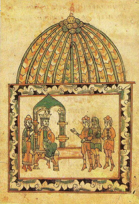 Background of the Kulikovo Battle. Dmitry Donskoy learns Mamai's plans of invading Russia from a captured Tatar